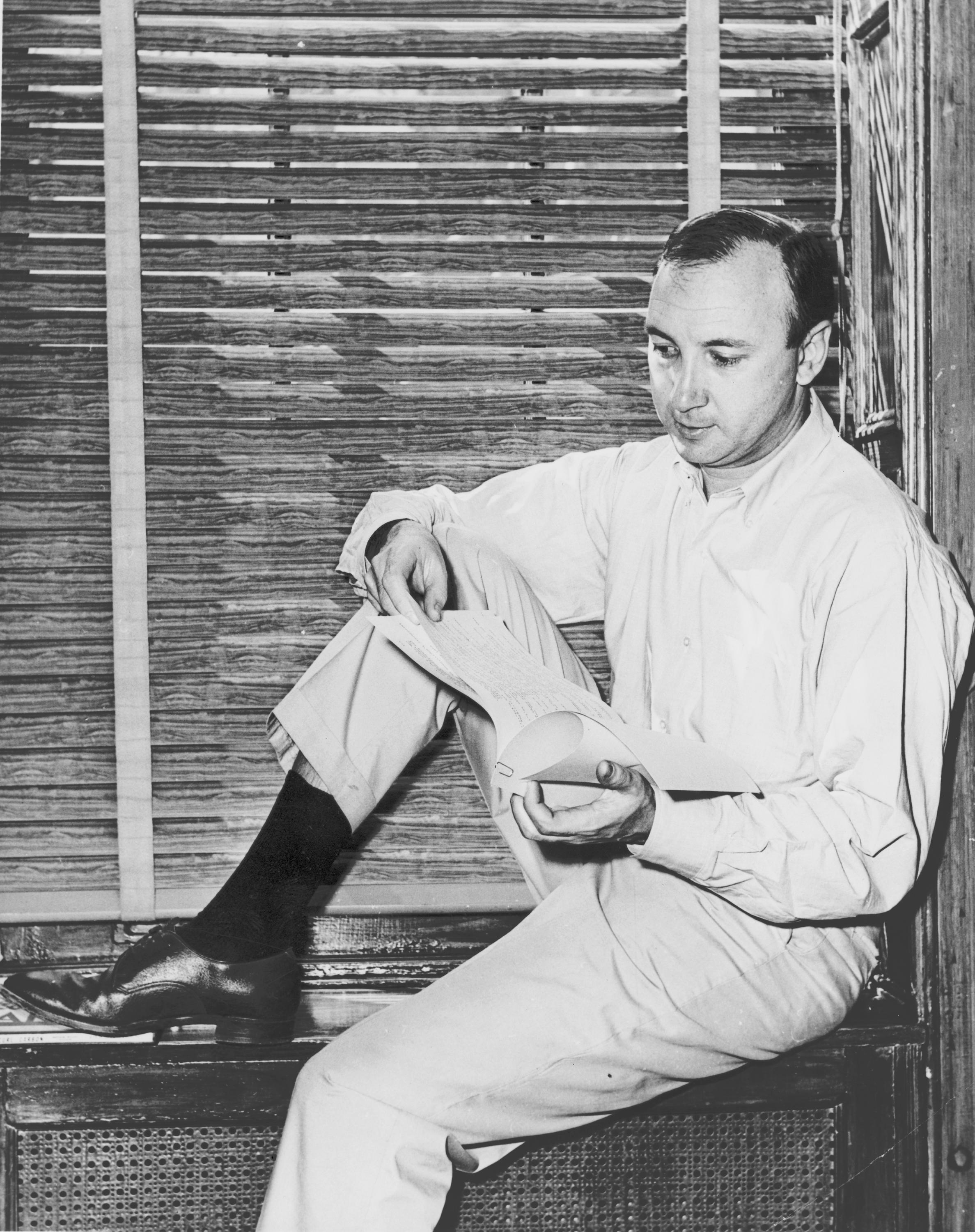 Mr. Neil Simon, author, sitting on windowsill at home pouring over a script of play he wrote / World Telegram & Sun photo by Al Ravenna.